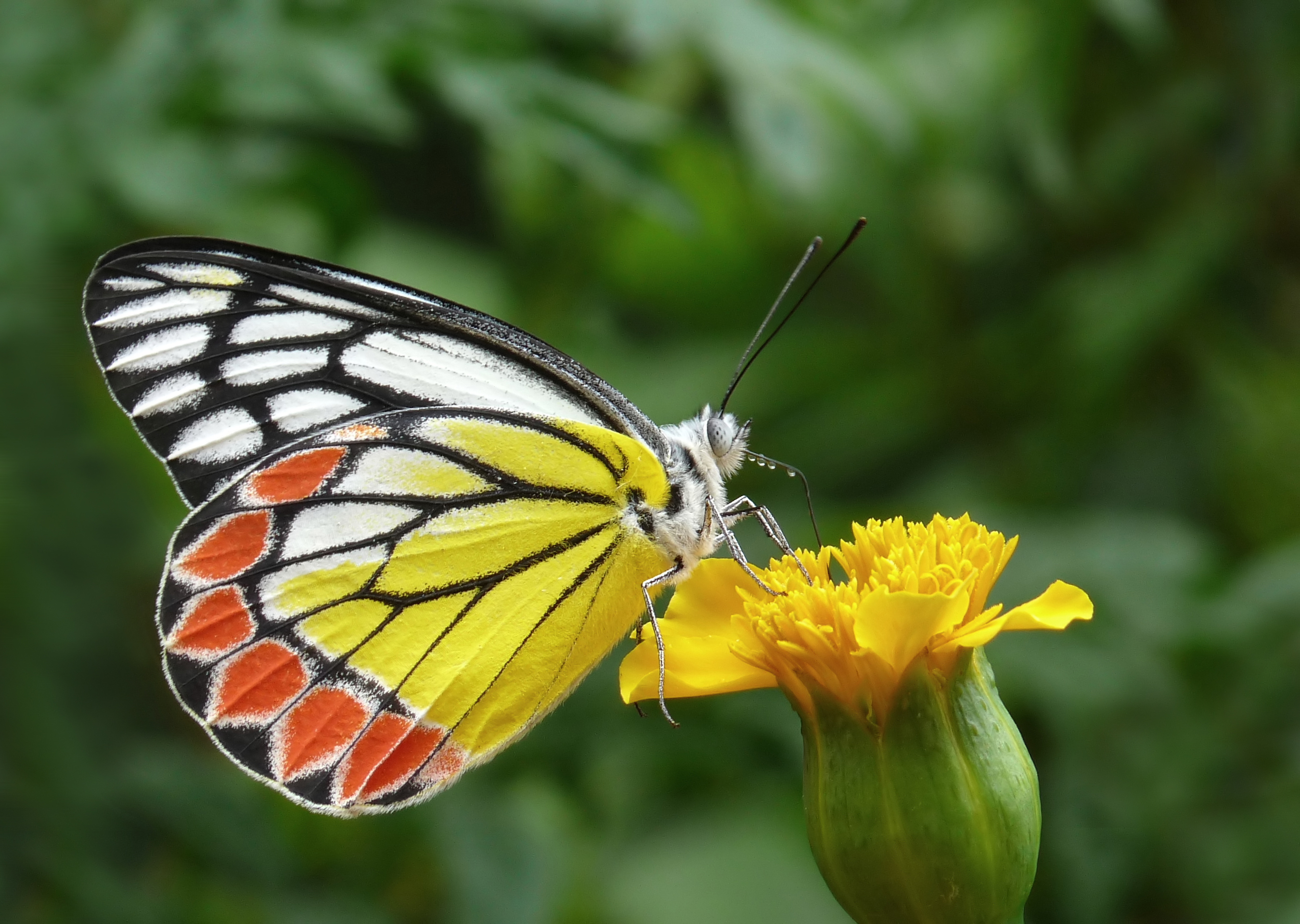 The Common Jezebel (Delias eucharis) is a medium sized pierid butterfly found in many areas of South and Southeast Asia, especially in the non-arid regions of India, Sri Lanka, Myanmar and Thailand. The Common Jezebel is one of the most common species in the genus Delias. The butterfly may be found wherever there are trees, even in towns and cities, flies high among the trees and comes lower down only to feed on nectar in flowers. It rests with its wings closed exhibiting the brilliantly coloured underside. Due to this habit apparently, it has evolved a dull upper-side and a brilliant underside so that birds below it recognise it immediately while in flight and at rest. The bright coloration is to indicate the fact that it is unpalatable due to toxins accumulated by the larvae from the host-plants. Taken at Kadavoor, Kerala, India.